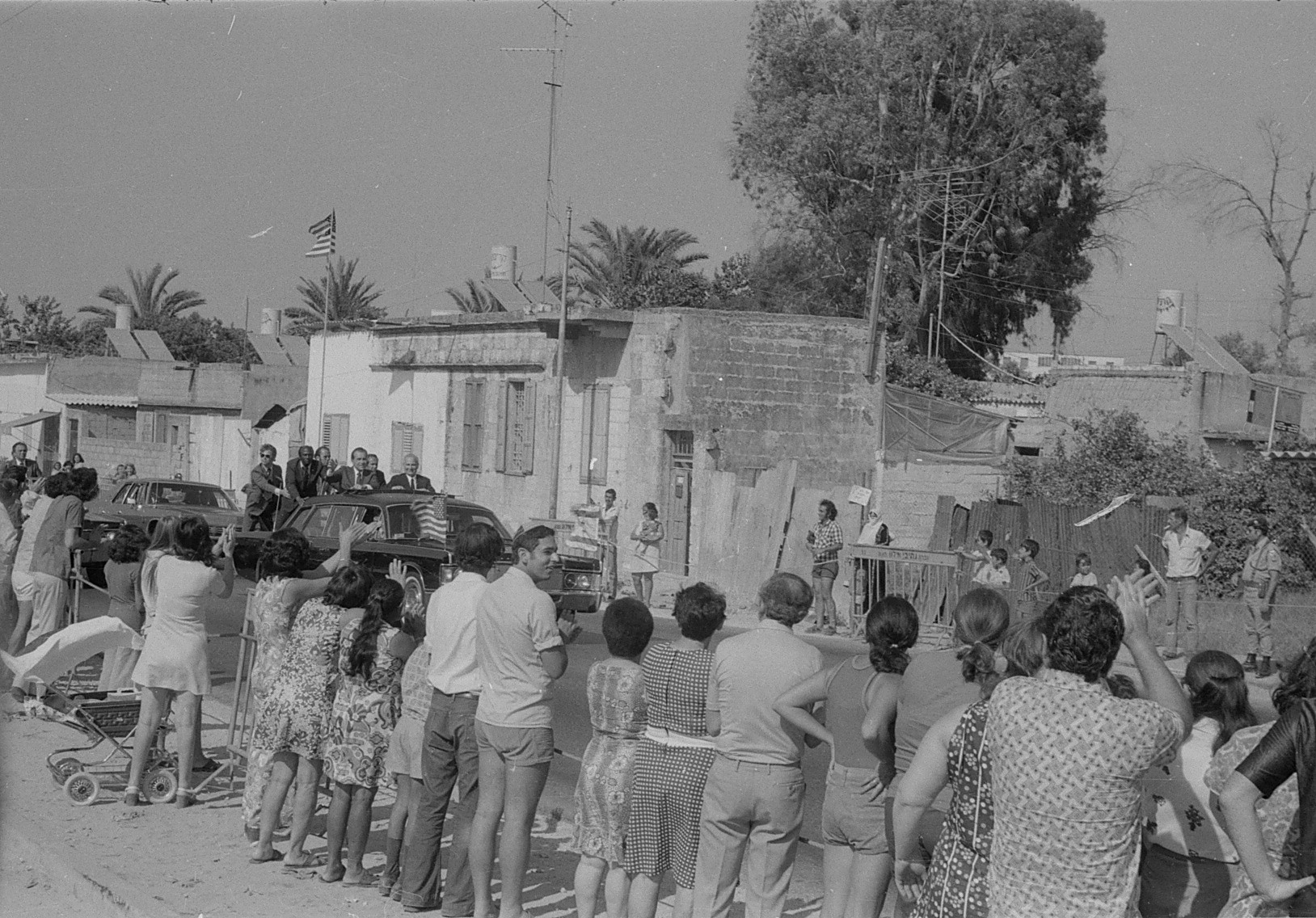 People of Israel